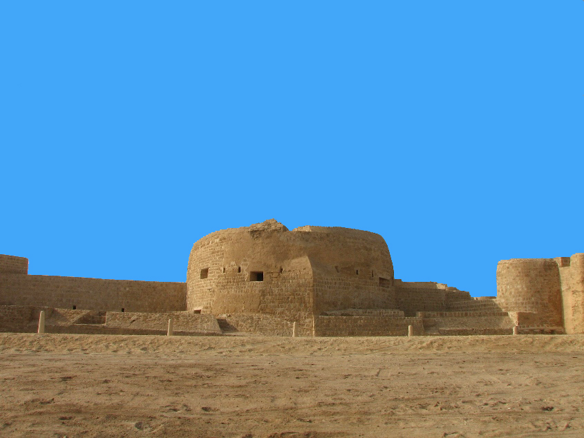 Qal`at al-Bahrain (english:) is an archaeological site located in Bahrain. It is composed of an artificial mound created by human inhabitants from 2300 BC up to the 1700's. Among other things, it was once the capital of the Dilmun civilization, and served more recently as a Portuguese fort. For these reasons, it was inscribed as a UNESCO World Heritage Site in 2005.